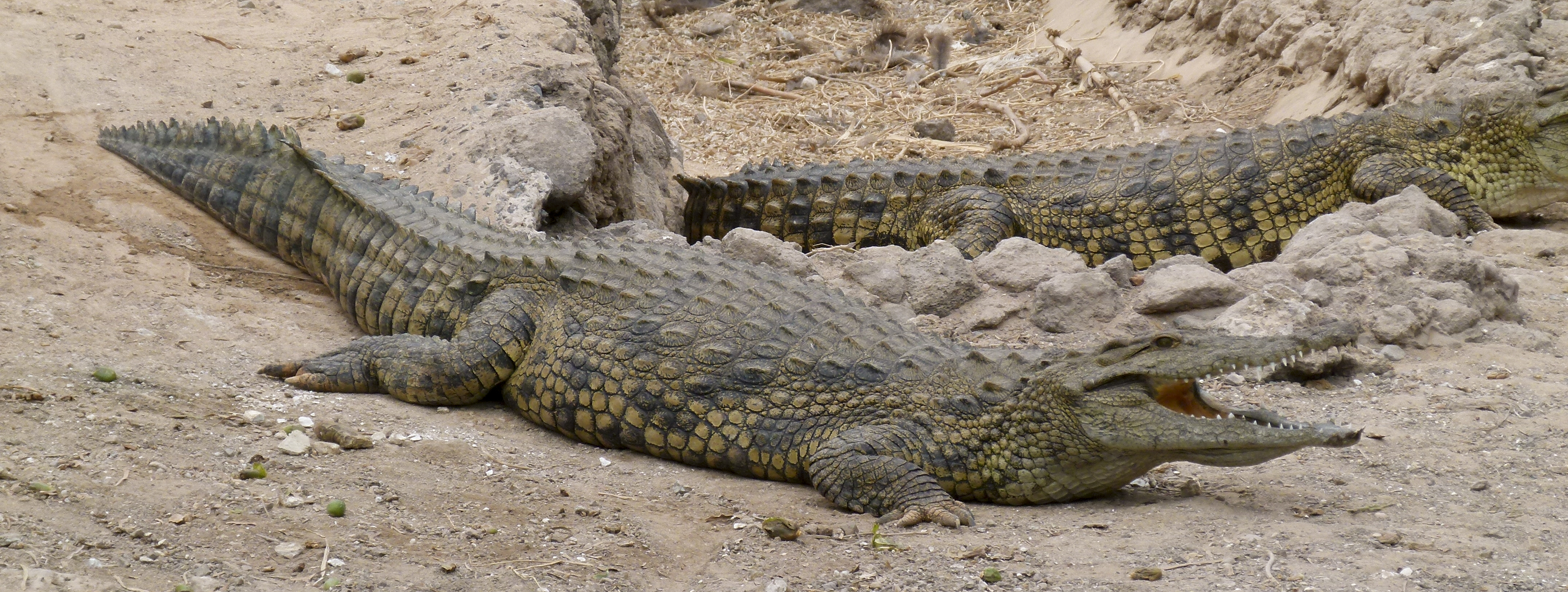 Crocodiles (Crocodylus) in the Oasis Park, La Lajita, Pájara, Fuerteventura, Canary Islands, Spain